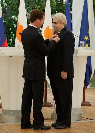 Dmitry Medvedev awards the Order of Friendship to President of Cyprus Dimitris Christofias.